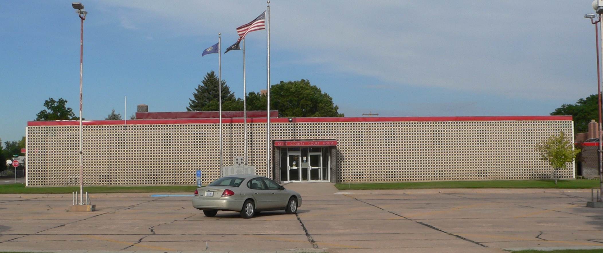 Keith County courthouse in Ogallala, Nebraska; seen from the west.